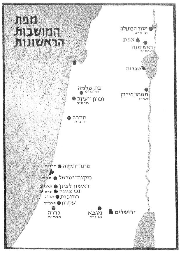 Rabbi Mordechai Niemann and his family